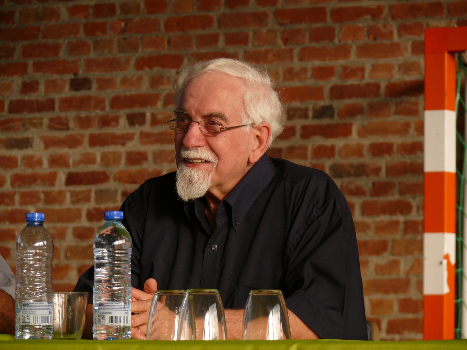 Father Samir Khalil Samir at the 2014 forum « Jésus le Messie » in Steenwerck (Nord, France).